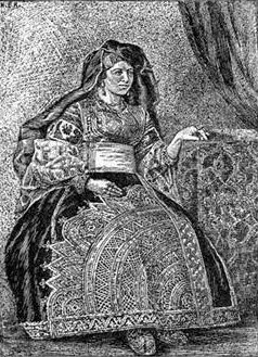 Moroccan Jewish women. From the 1901-1906 Jewish Encyclopedia, now in the public domain. Category:Jewish Encyclopedia images